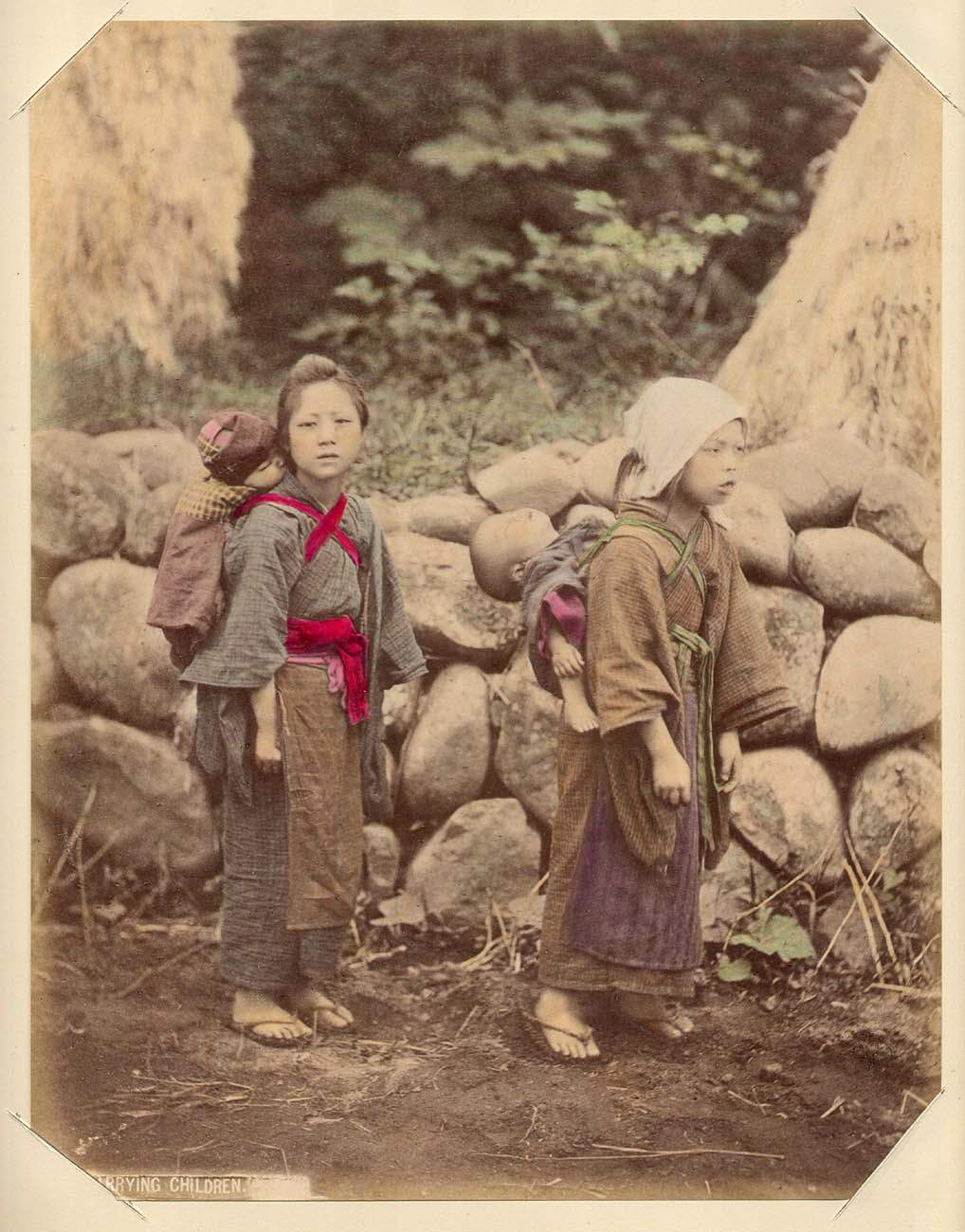 albumen